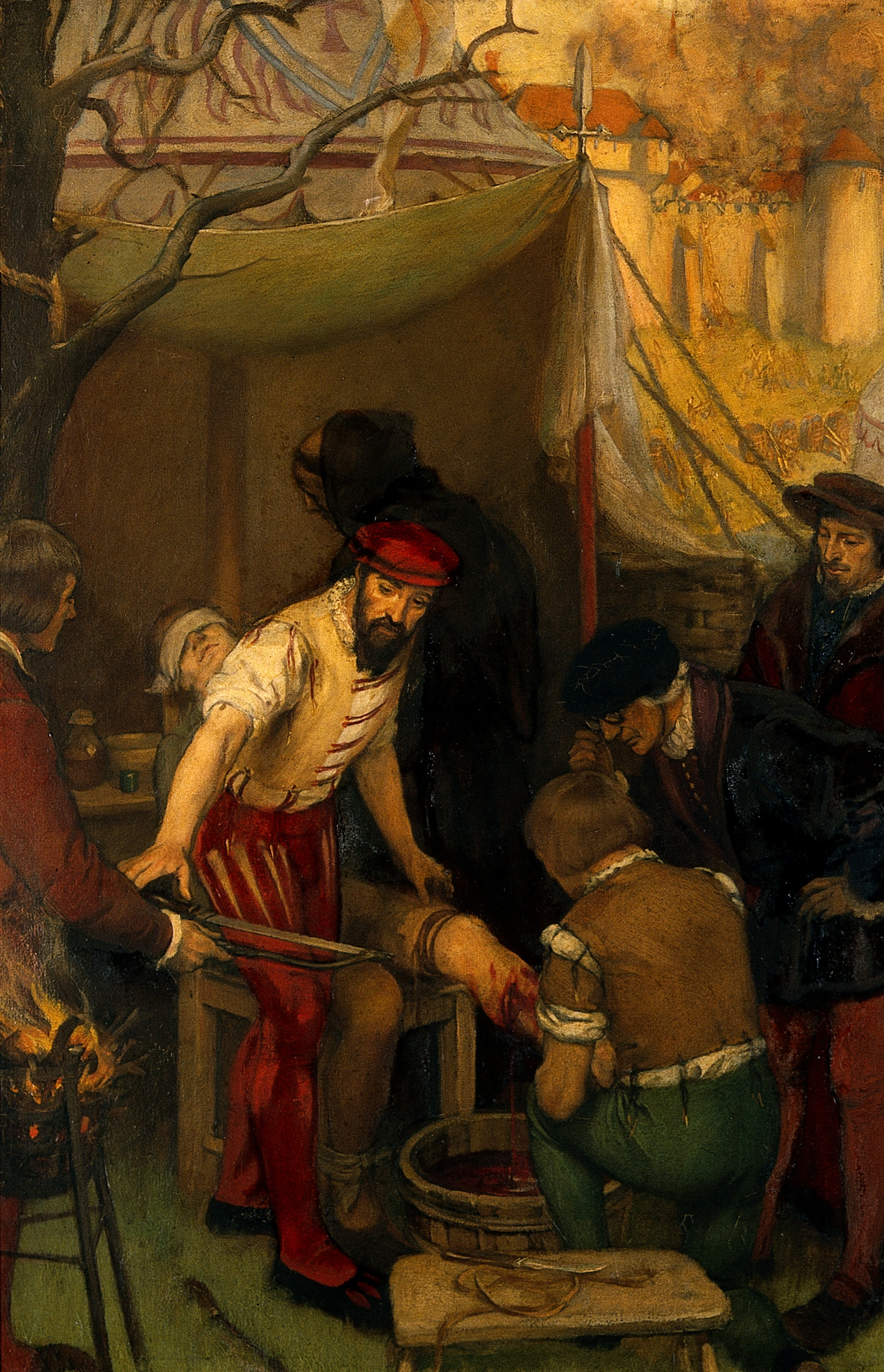 Ambroise Paré using the ligature when amputating on the battlefield at the siege of Damvillers (and not in Bramvilliers as often wrongly mentioned), 1552. Oil painting by Ernest Board (1877-1934).